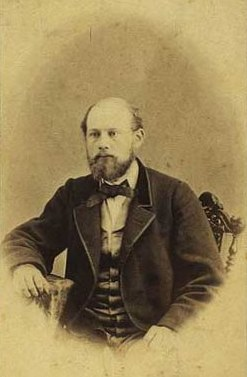 Henrik Christian Georg Tilemann (1835-1923), Danish estate manager and amateur photographer